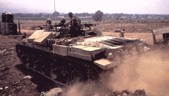 Picture of a Nagmashot, a heavily armoured Israeli armoured personnel carrier produced from surplus Centurion tank chassis.